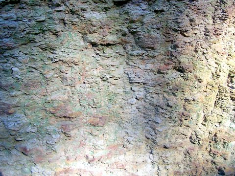 Shale by Pacific Highway Chatswood, Australia